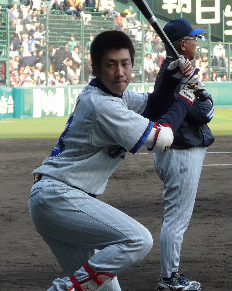 Kazuya Fujita, infielder of the Yokohama BayStars, at Hanshin Koshien Stadium